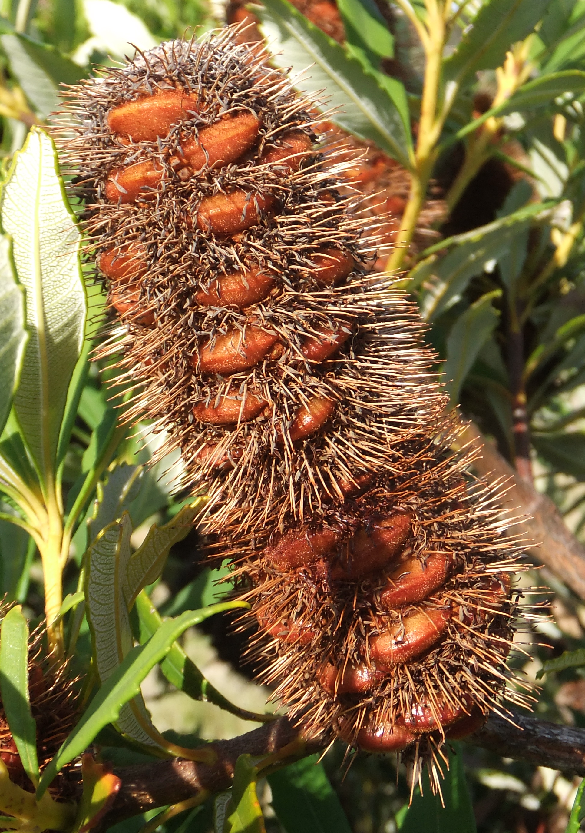 infructescense of Banksia paludosa, growing at the 'Banksia Farm' of Mount Barker, Western Australia.